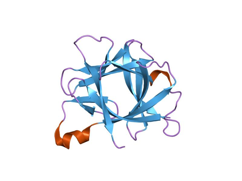 Cartoon representation of the molecular structure of protein registered with 4i1b code.